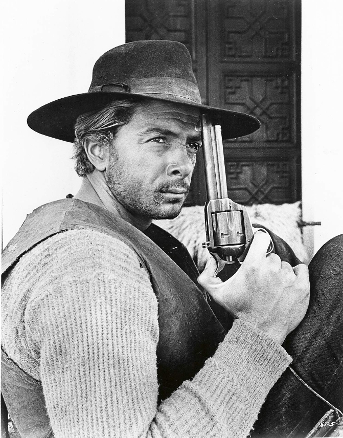 Production photograph of actor Tony Anthony as "The Stranger" in the Spaghetti Western "A Stranger in Town" (1967).